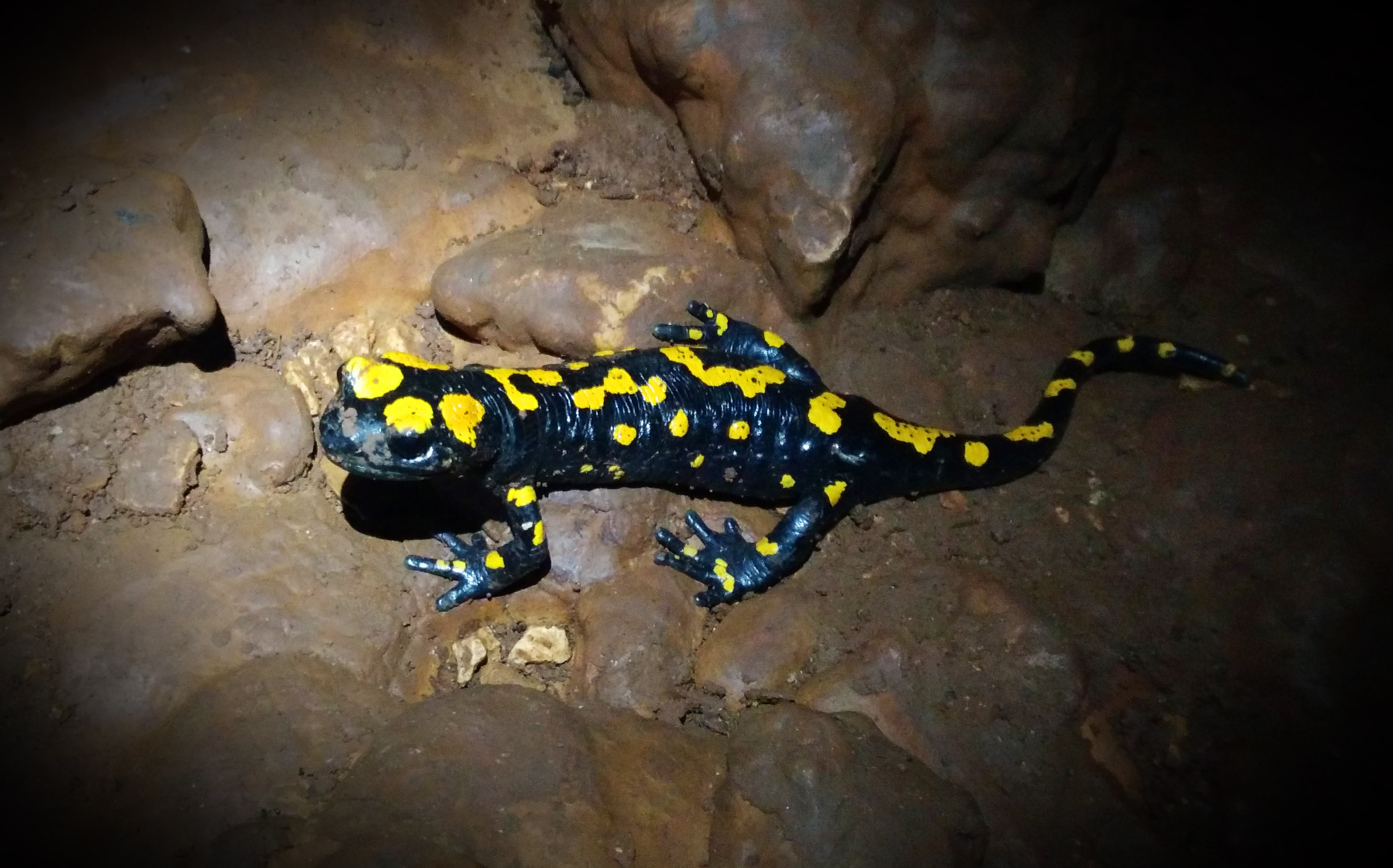 This is a big salamandra infraimmaculata found in israeli cave near Fassuta village.